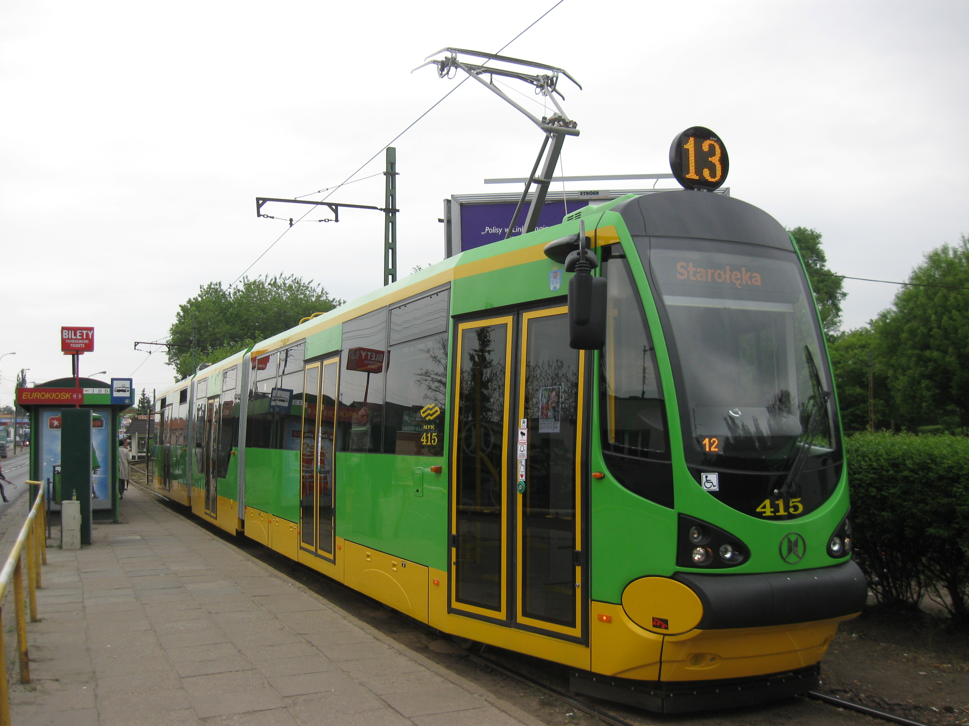 Tram Moderus Beta MF 02 AC (#415) in Poznań on tram terminus Junikowo.